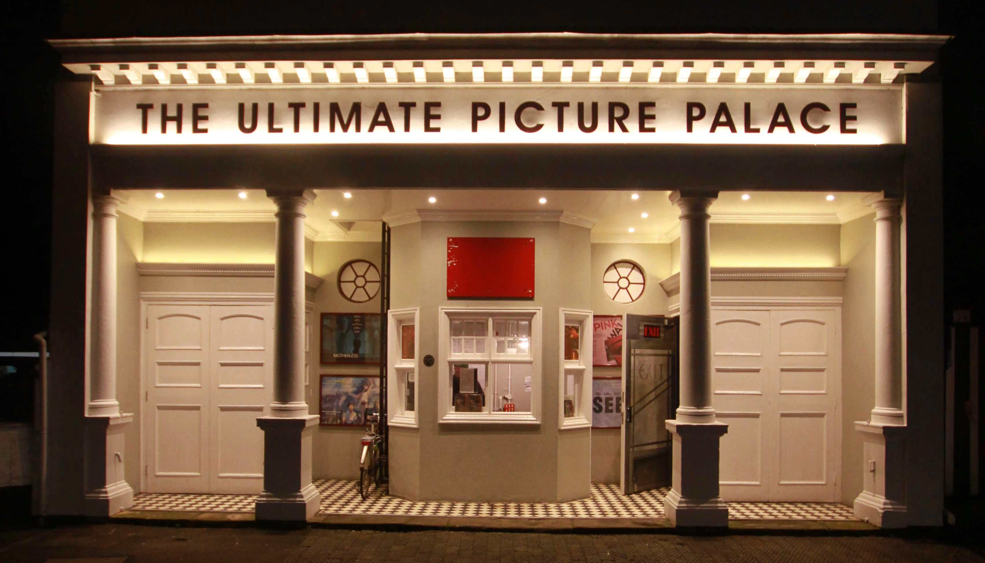 The Ultimate Picture Palace, Jeune Street, Oxford, England, seen from the west at night